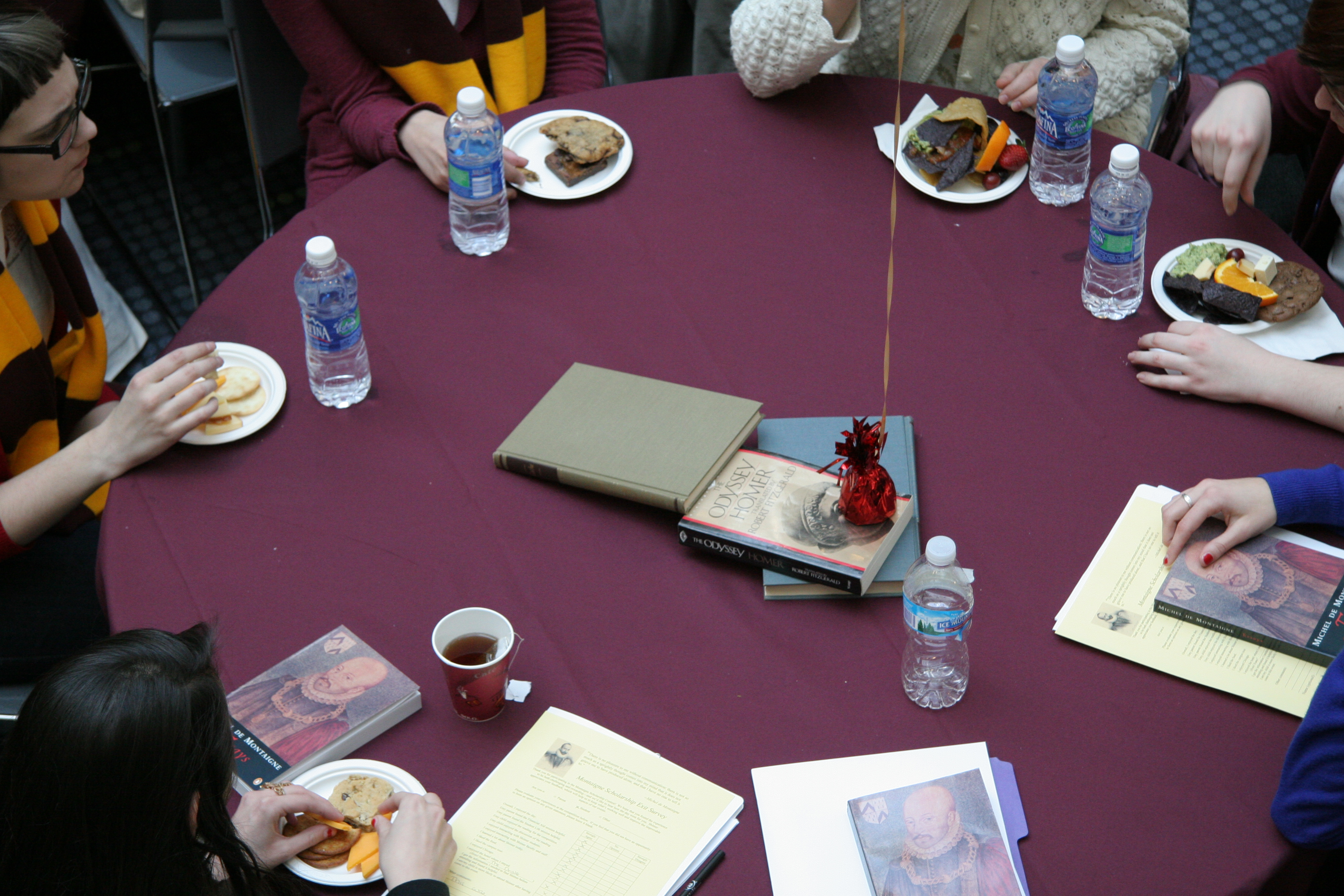 View of table during discussion component of annual Montaigne scholarship competition at Shimer College in Chicago in February 2011. Copies of J.M. Cohen's translation of Montaigne's Essays are visible around the table.